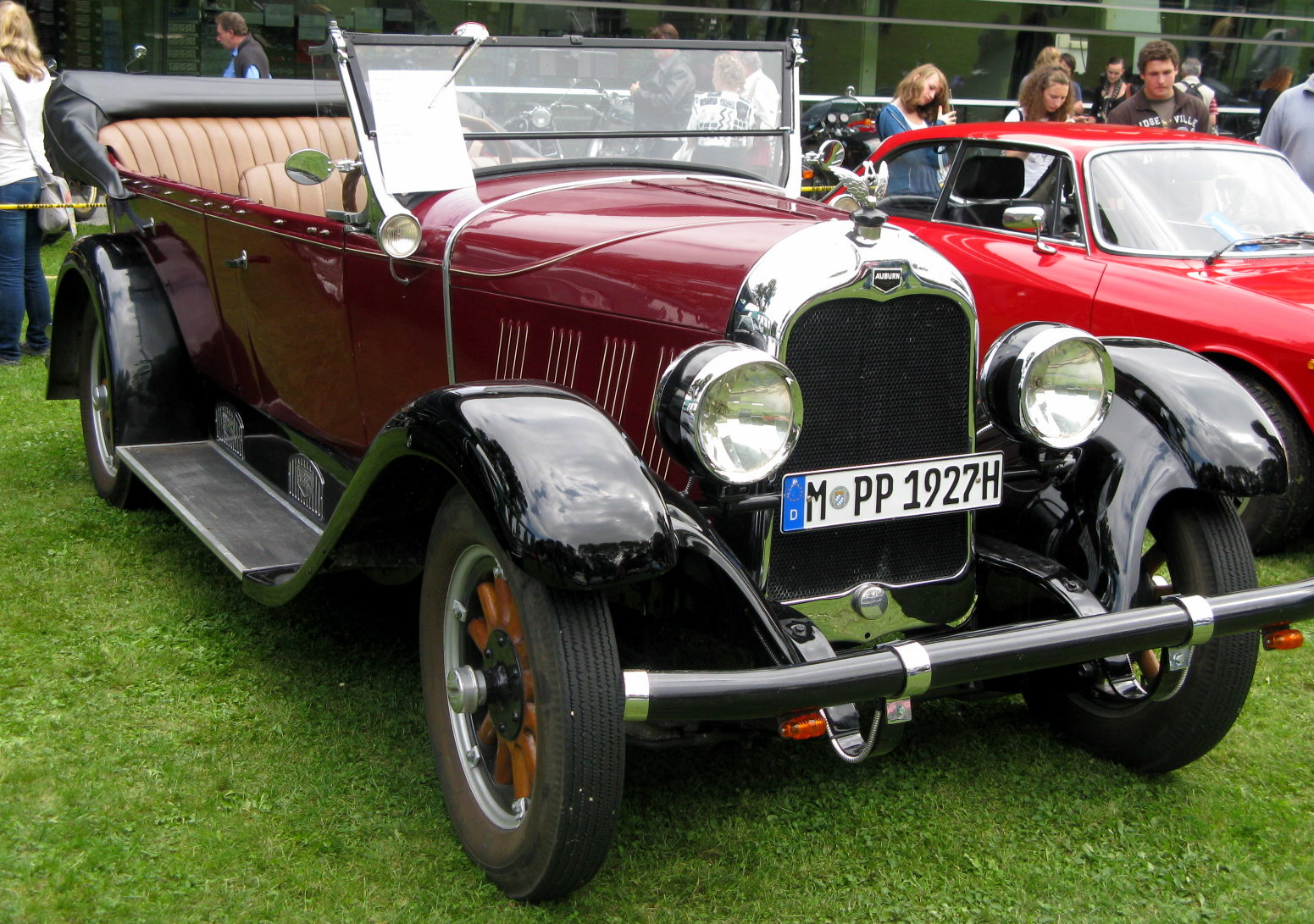 1927 Auburn 6-66A Touring at vintage vehicle show in Fürstenfeld (Bavaria)